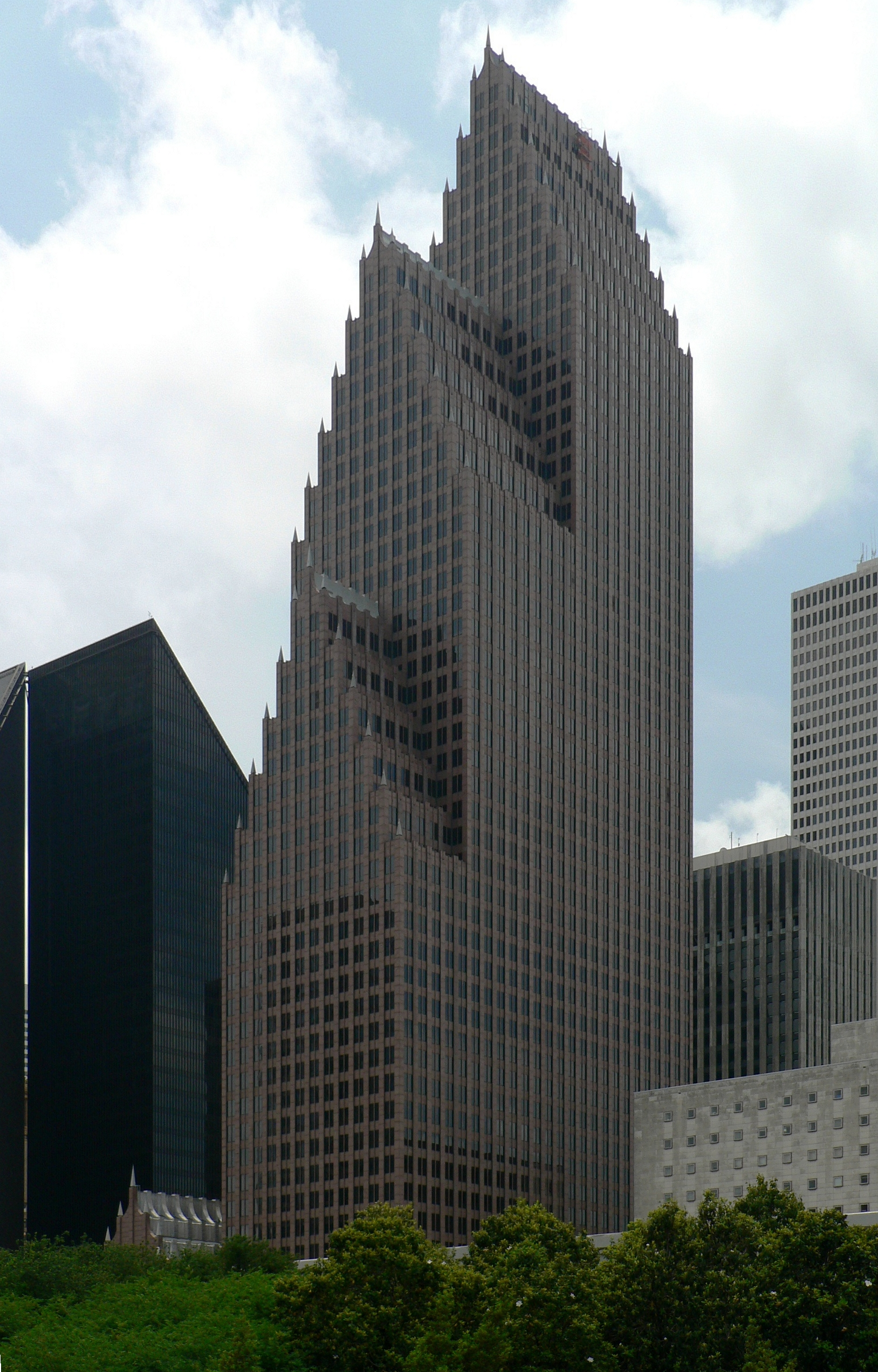 I took this picture from Bagby and Memorial (looking South). The black pair of buildings is Penzoil Place. On the right side, One Shell Plaza.